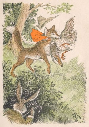 Brushtail the Fox - Milo Winter - Project Gutenberg eText 18667